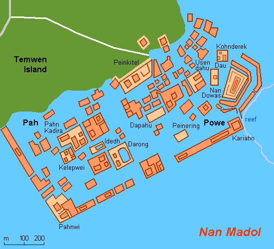 Map of Nan Madol (rough), Federated States of Micronesia, own work composed from various mapreferences